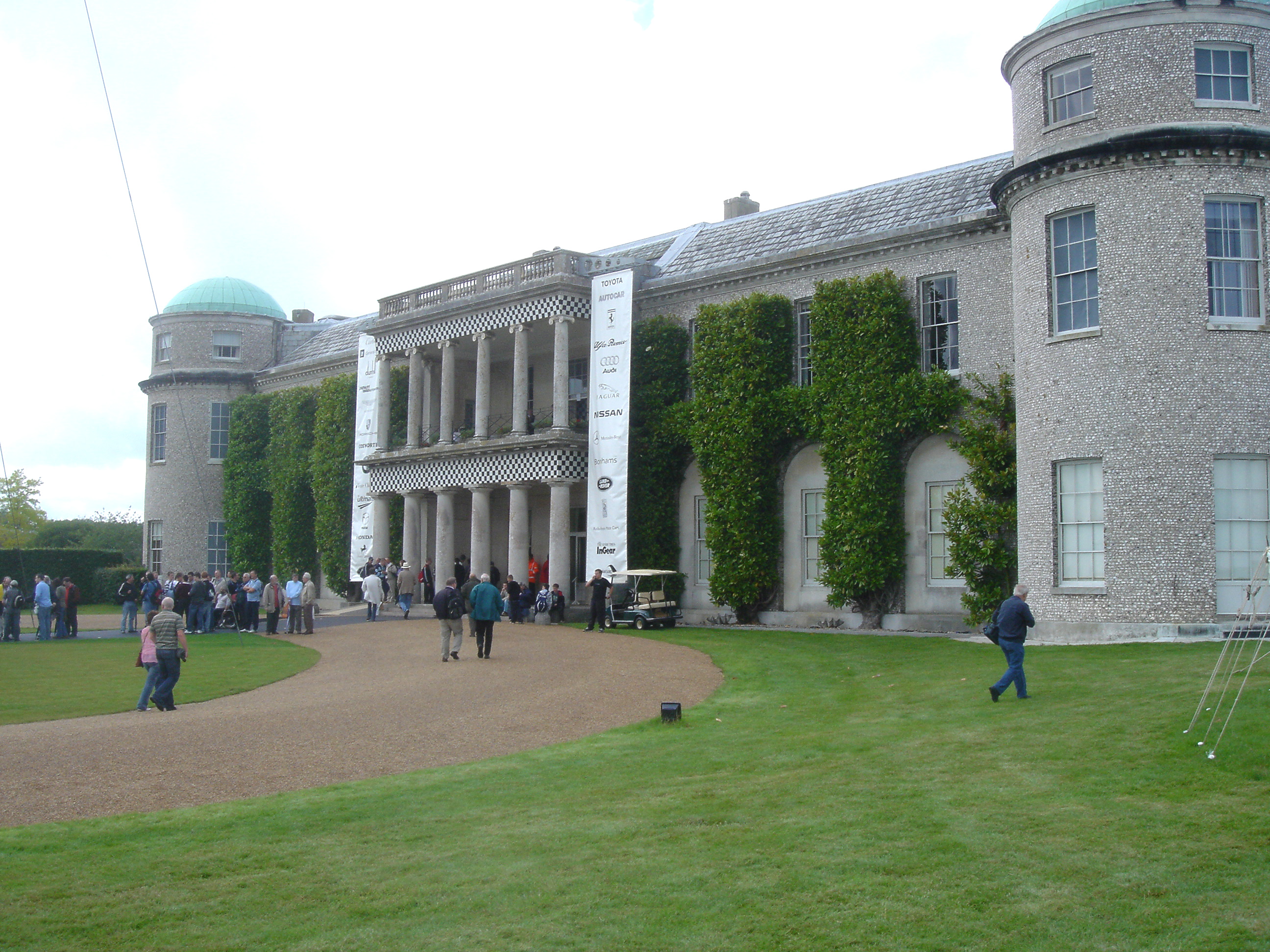 Goodwood Festival of Speed 2007 - Goodwood House